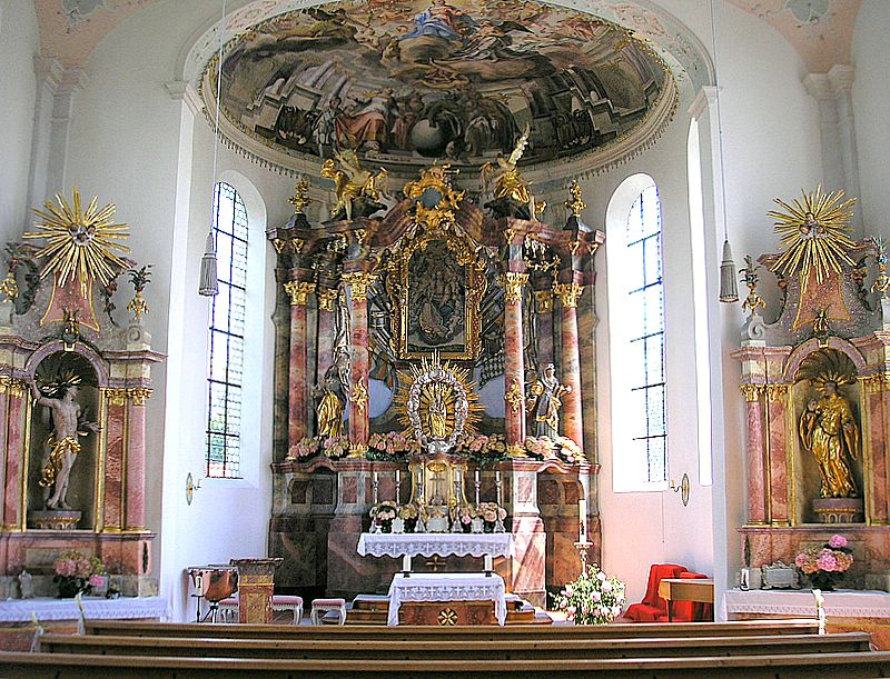 Pilgrimage church Maria Aich (Peissenberg, Landkreis Weilheim-Schongau, Upper Bavaria, Germany). Interior, looking east